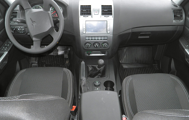 UAZ Pickup